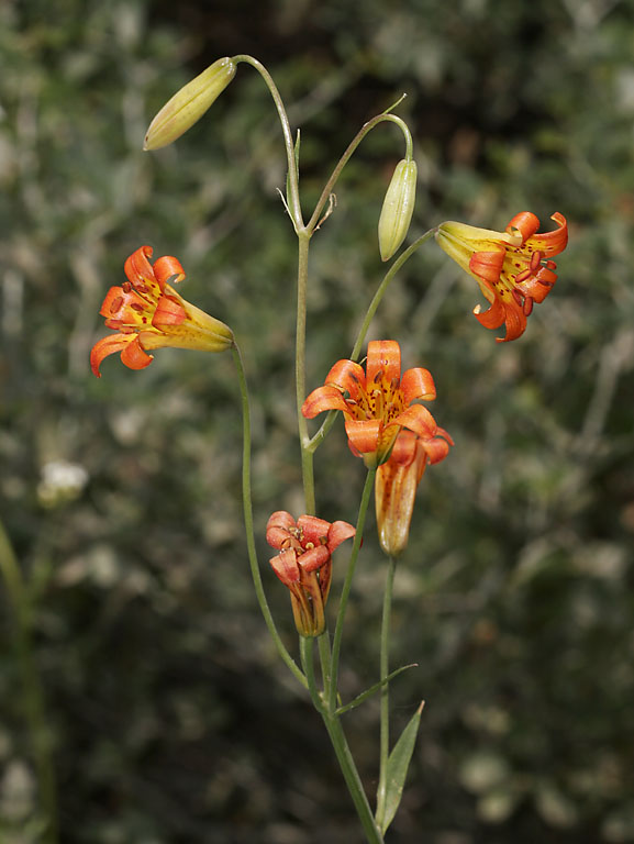 Fritillaria recurva — Scarlet fritillary. At Fresno Dome of the western Sierra Nevada, in the Sierra National Forest, Madera County, California.